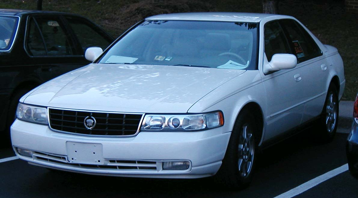 1998-2004 Cadillac Seville photographed in USA.